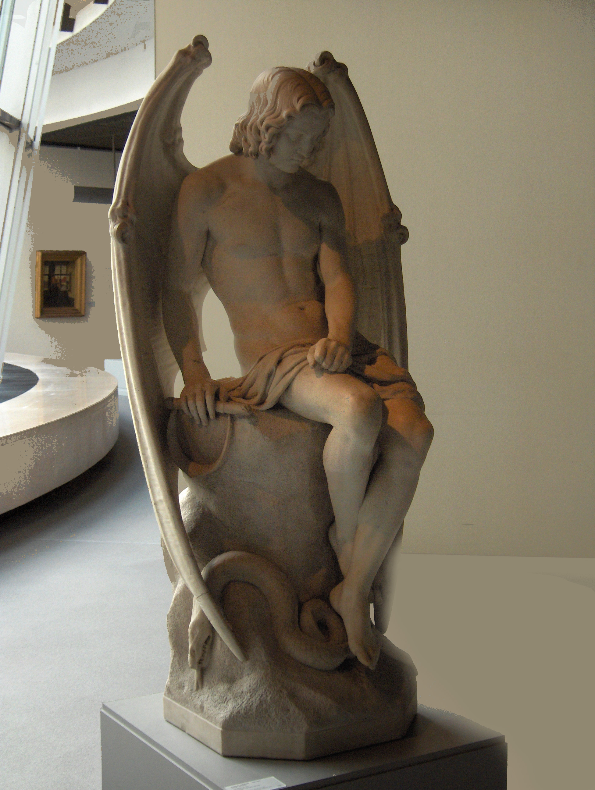 "The genius of evil" (1864) by Joseph Geefs (1808-1885) Royal Museums of Fine Arts, Brussels, Belgium